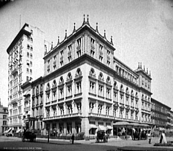 The Delmonico's Restaurant in New York City in 1903